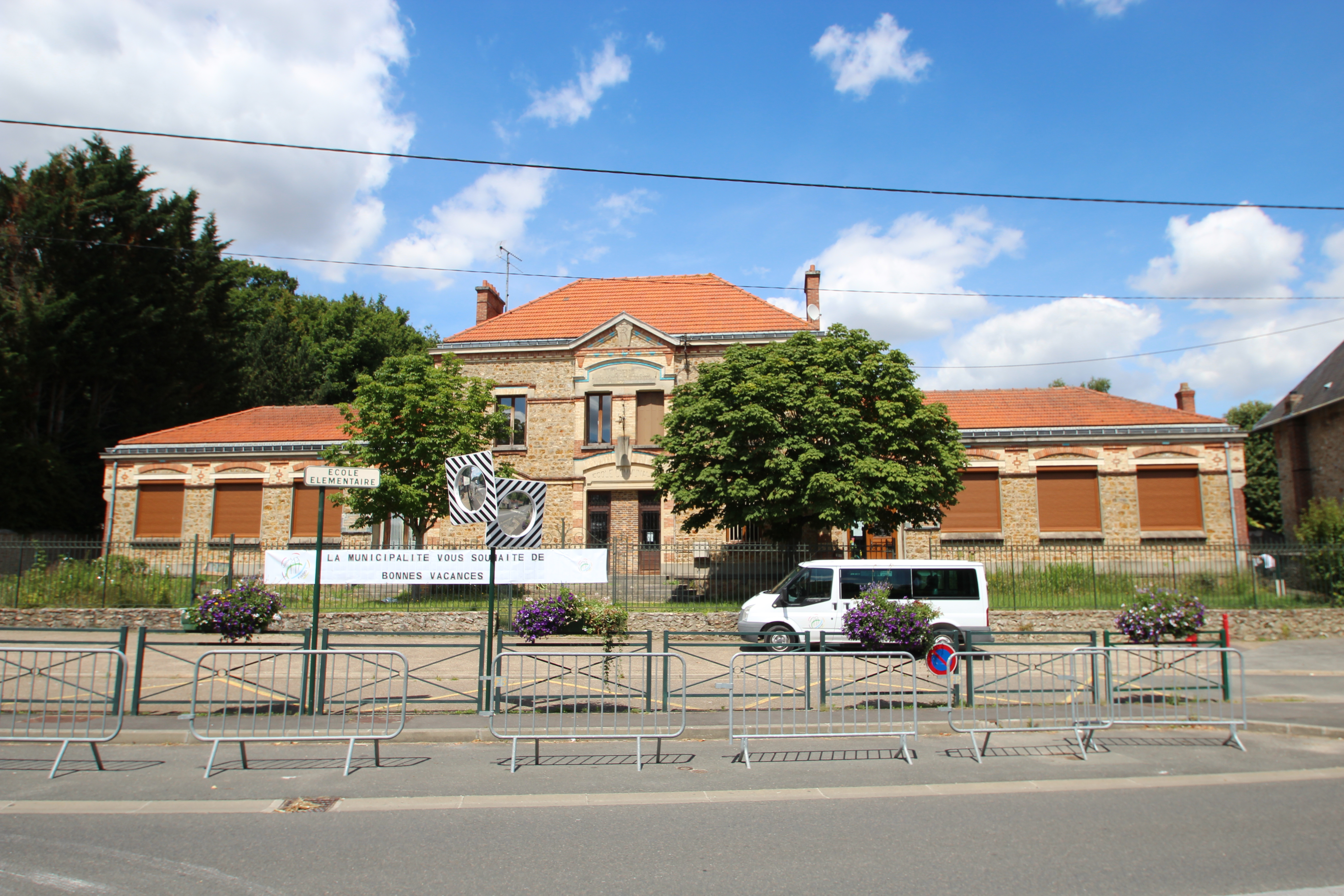 Elementary school of the Petit Muce in Forges-les-Bains, France. Object location48° 37′ 47.53″ N, 2° 05′ 20.54″ E